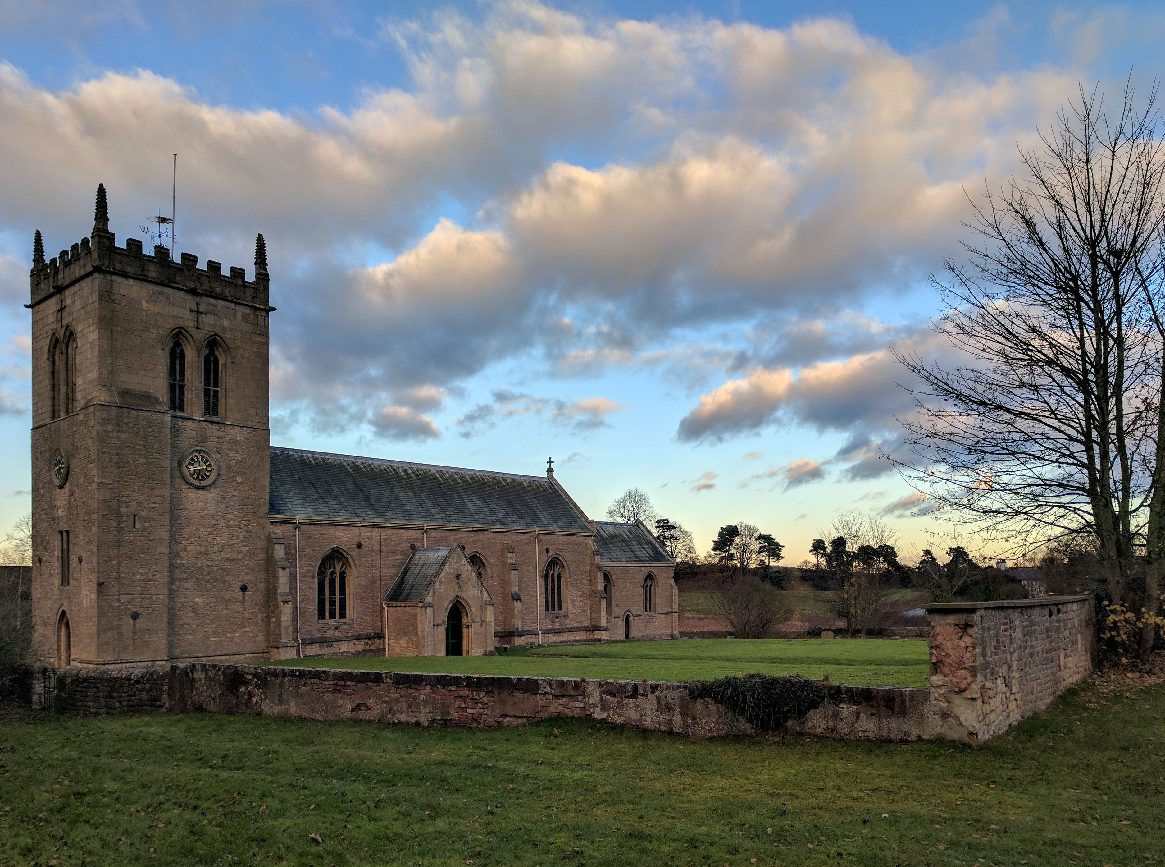 St Mary's Church, Norton Lane, Cuckney Wikidata has entry Q15979425 with data related to this item.